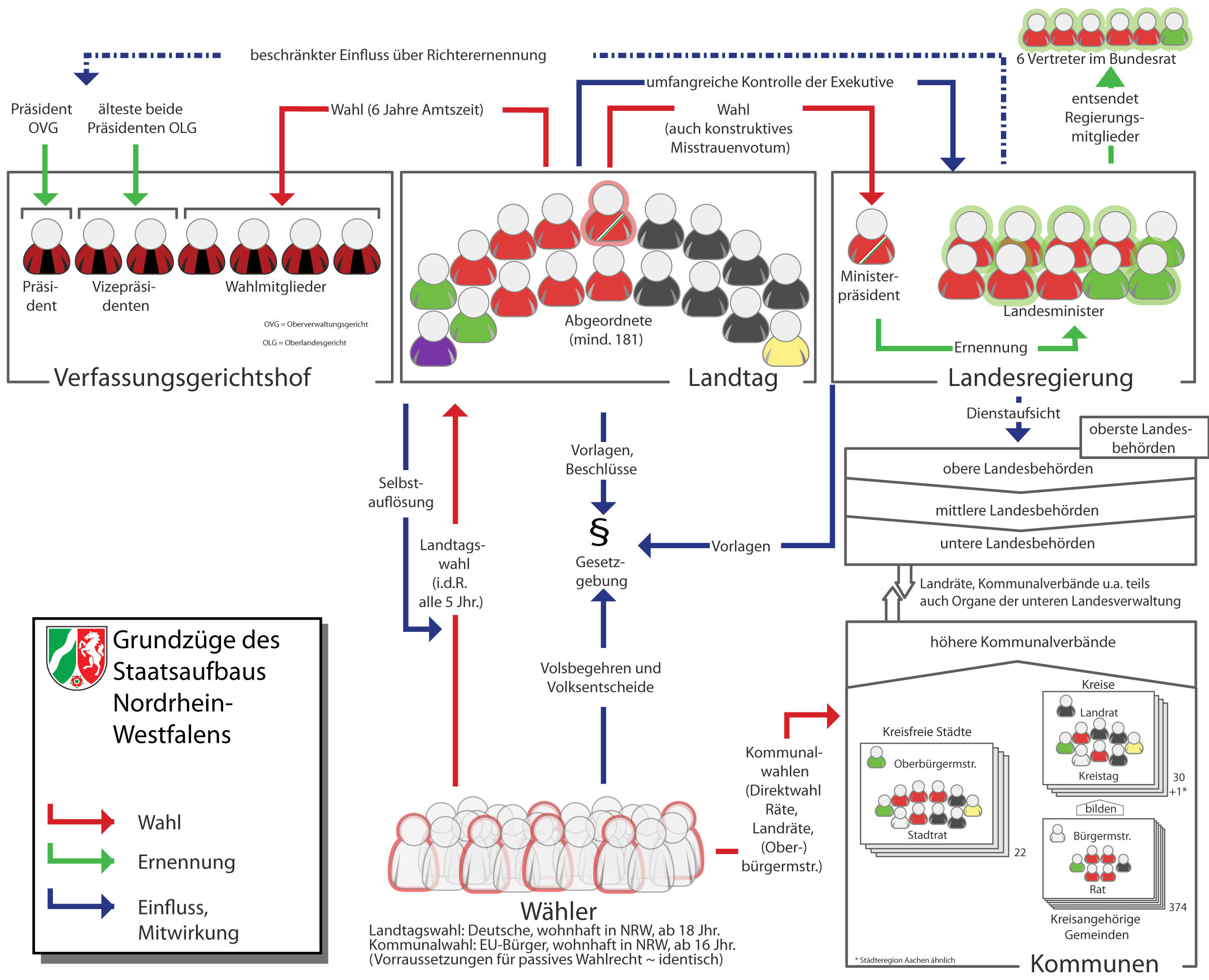 Organization of the state of North Rhine-Westphalia, Germany.